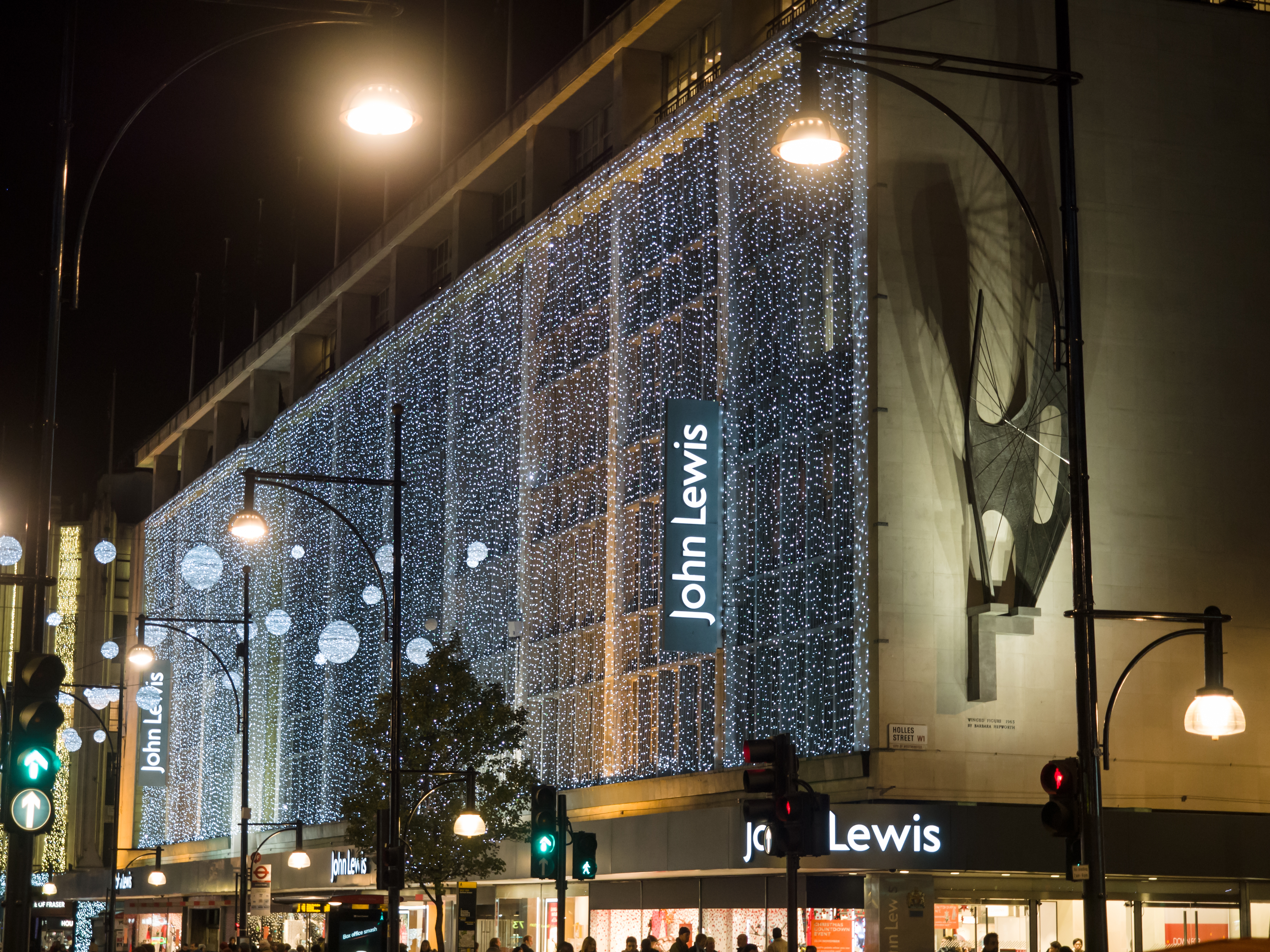 Christmas lights in November